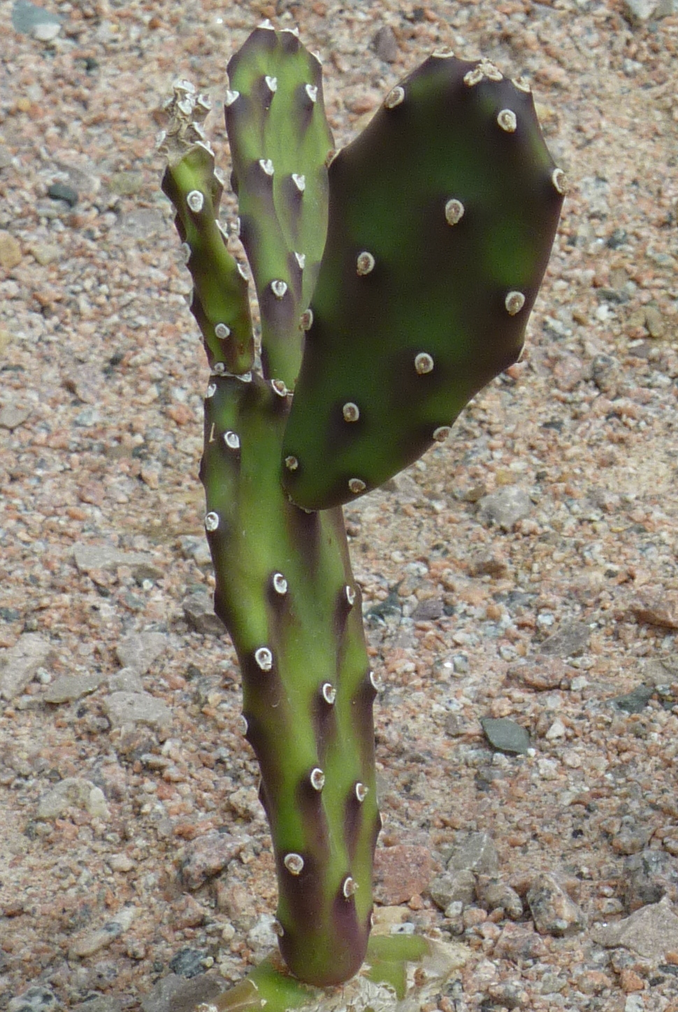 Taken in the Cambridge University Botanic Garden